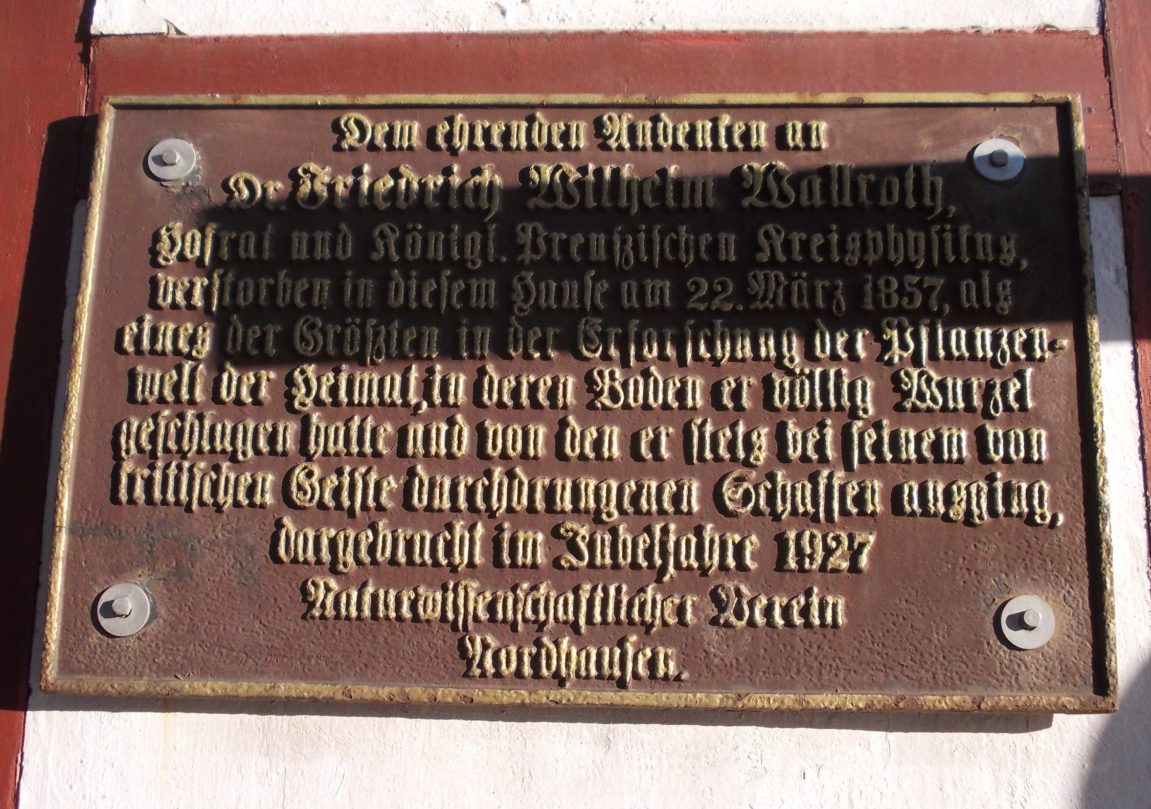 Plaque to the memory of the botanist K.F.W. Wallroth at Kranichstrasse in Nordhausen (Thuringia)